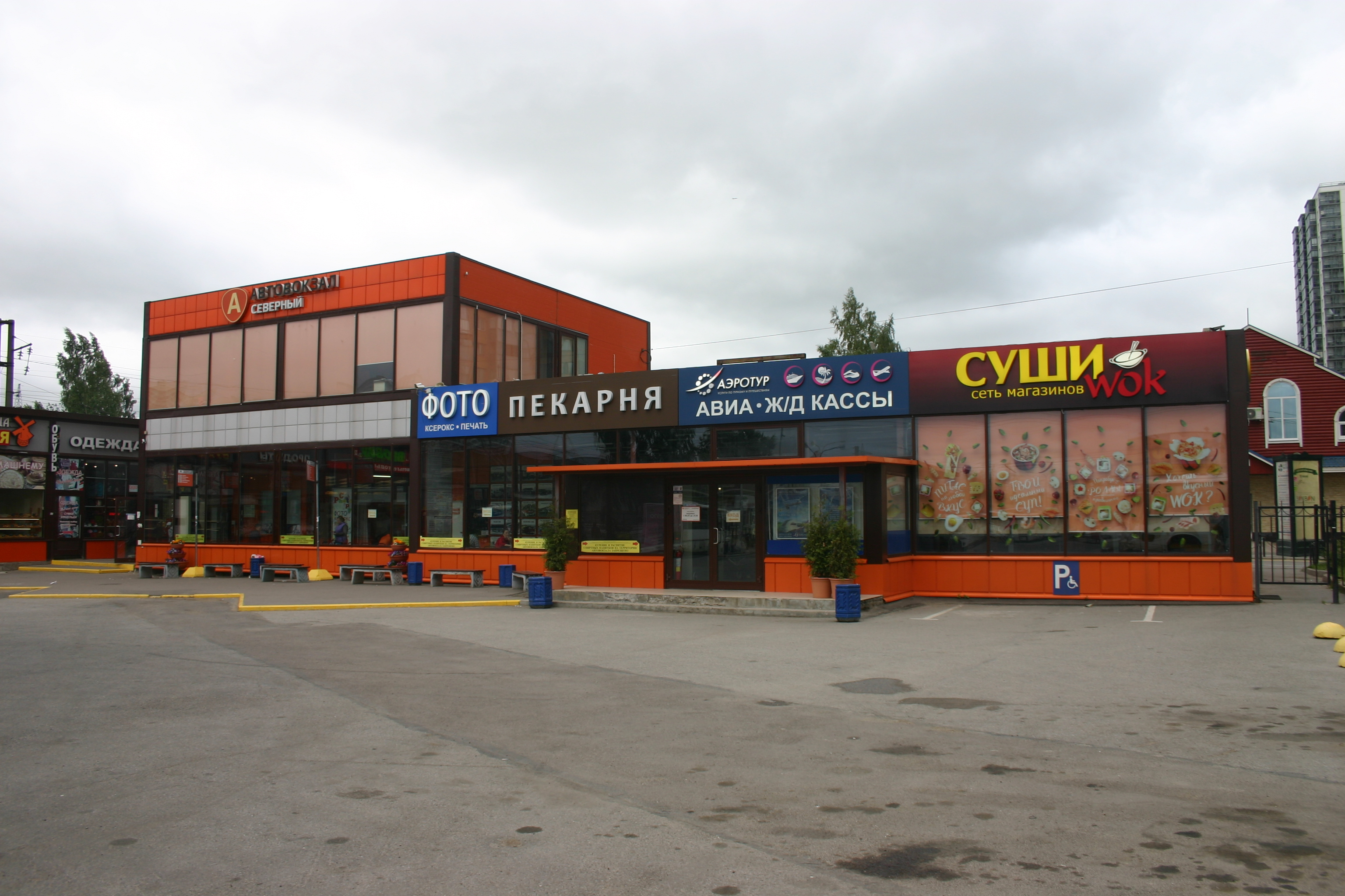 Severny bus station building in Murino.